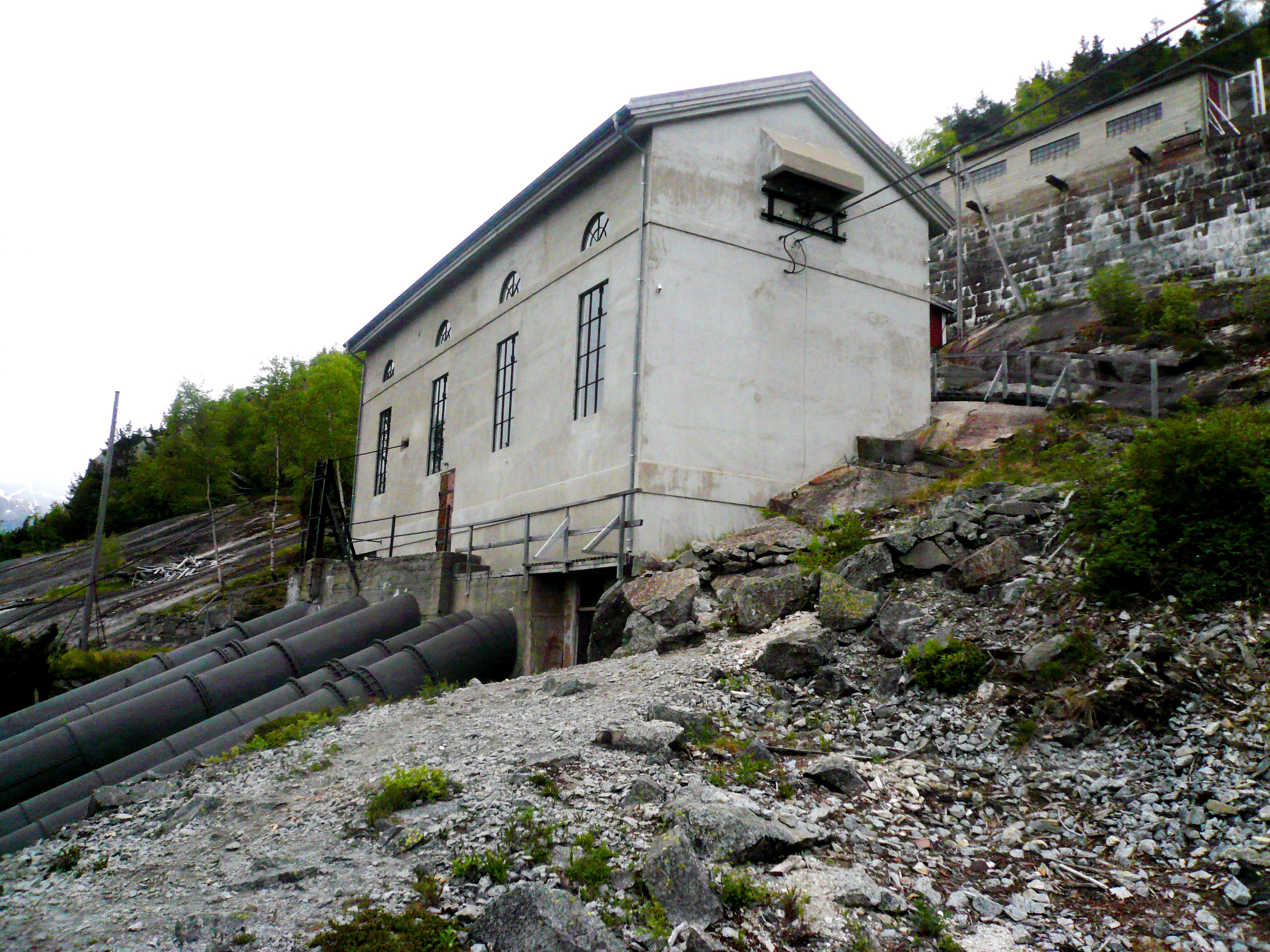 Lilletopp, Tyssedal, Norway